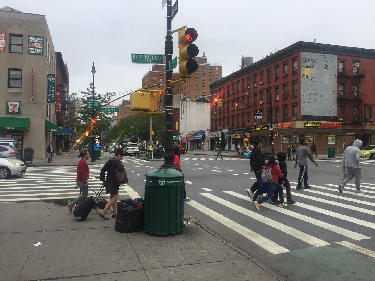 Intersection of 2nd Avenue and East 116th in Manhattan